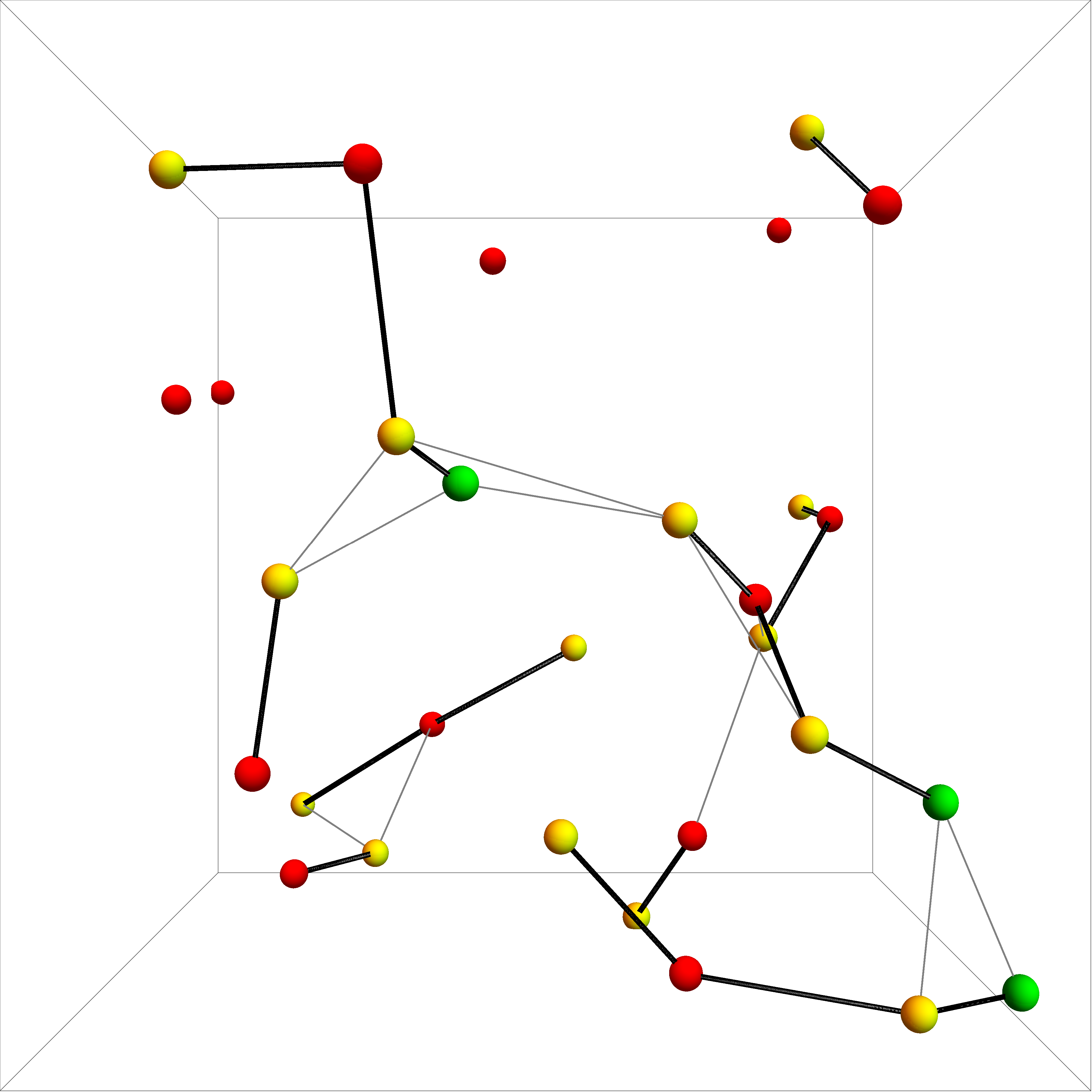 KHOPCA 3D example